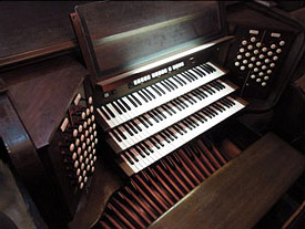 Manuals of the organ in Clark Memorial Chapel, Pomfret School, Pomfret, Connecticut, USA